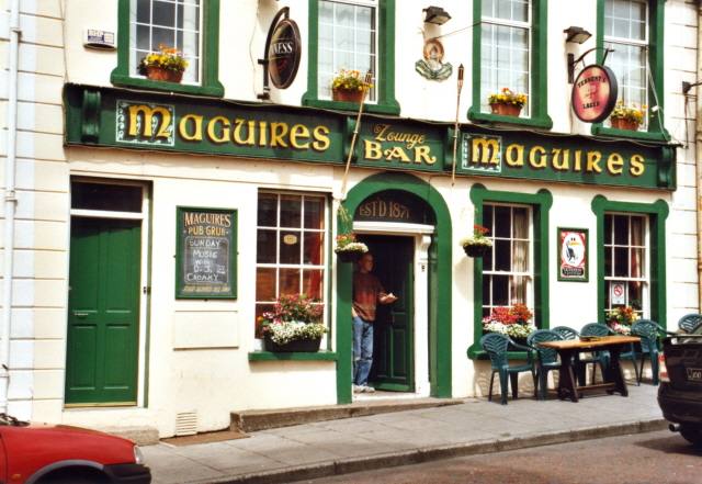 Moville, Co. Donegal. Pub at the square in Moville, south coast of the Inishoven Peninsula, Co. Donegal, Rep. of Ireland.